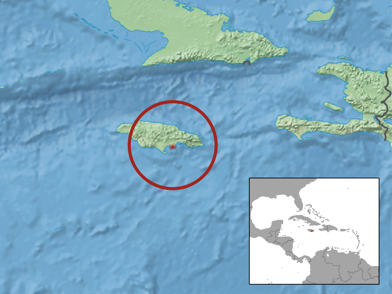 Geographic distribution of Cyclura collei